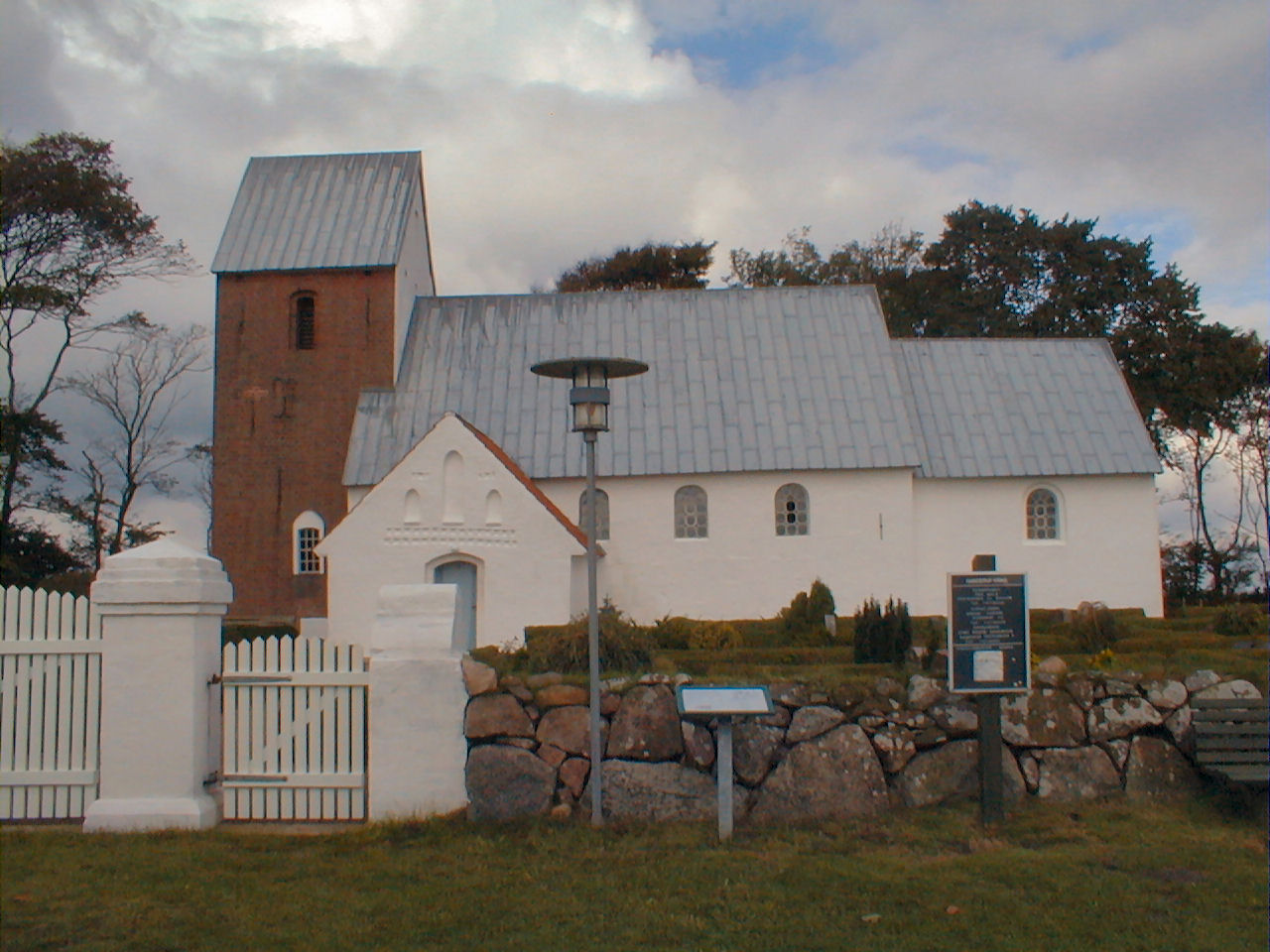 Randerup Church, where Hans Adolph Brorson and his father were pastors